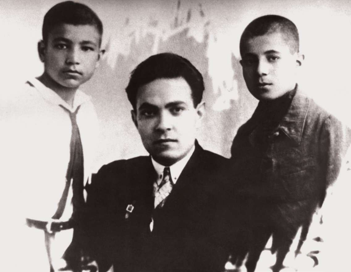 Mehdi Huseynzade, Said Rustamov and Mursal Najafov